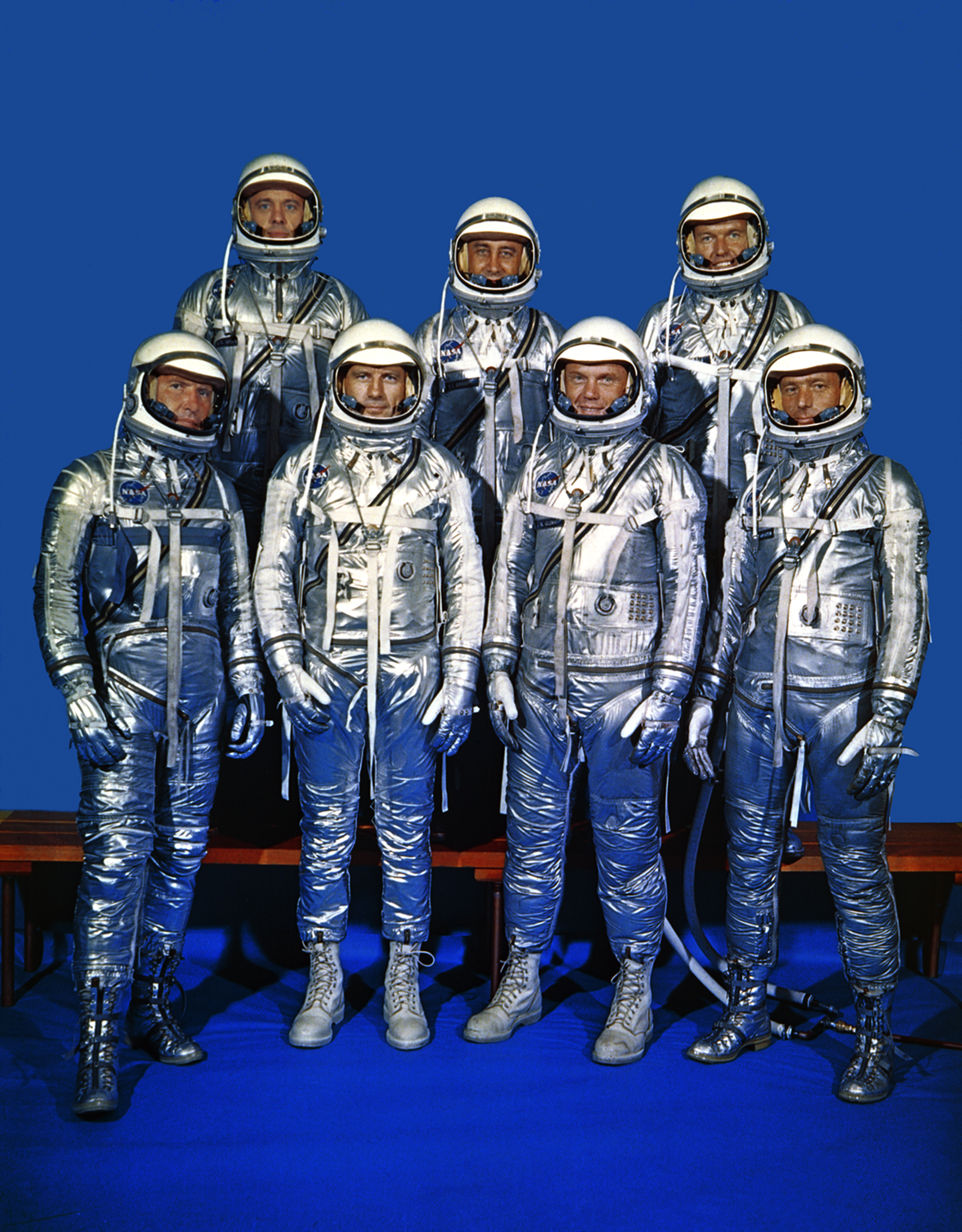 Project Mercury Astronauts, whose selection was announced on April 9, 1959, only six months after the National Aeronautics and Space Administration was formally established on October 1, 1958. Front row, left to right, Walter M. Schirra, Jr., Donald K. Slayton, John H. Glenn, Jr., and M. Scott Carpenter; back row, Alan B. Shepard, Jr., Virgil I. 'Gus' Grissom and L. Gordon Cooper.